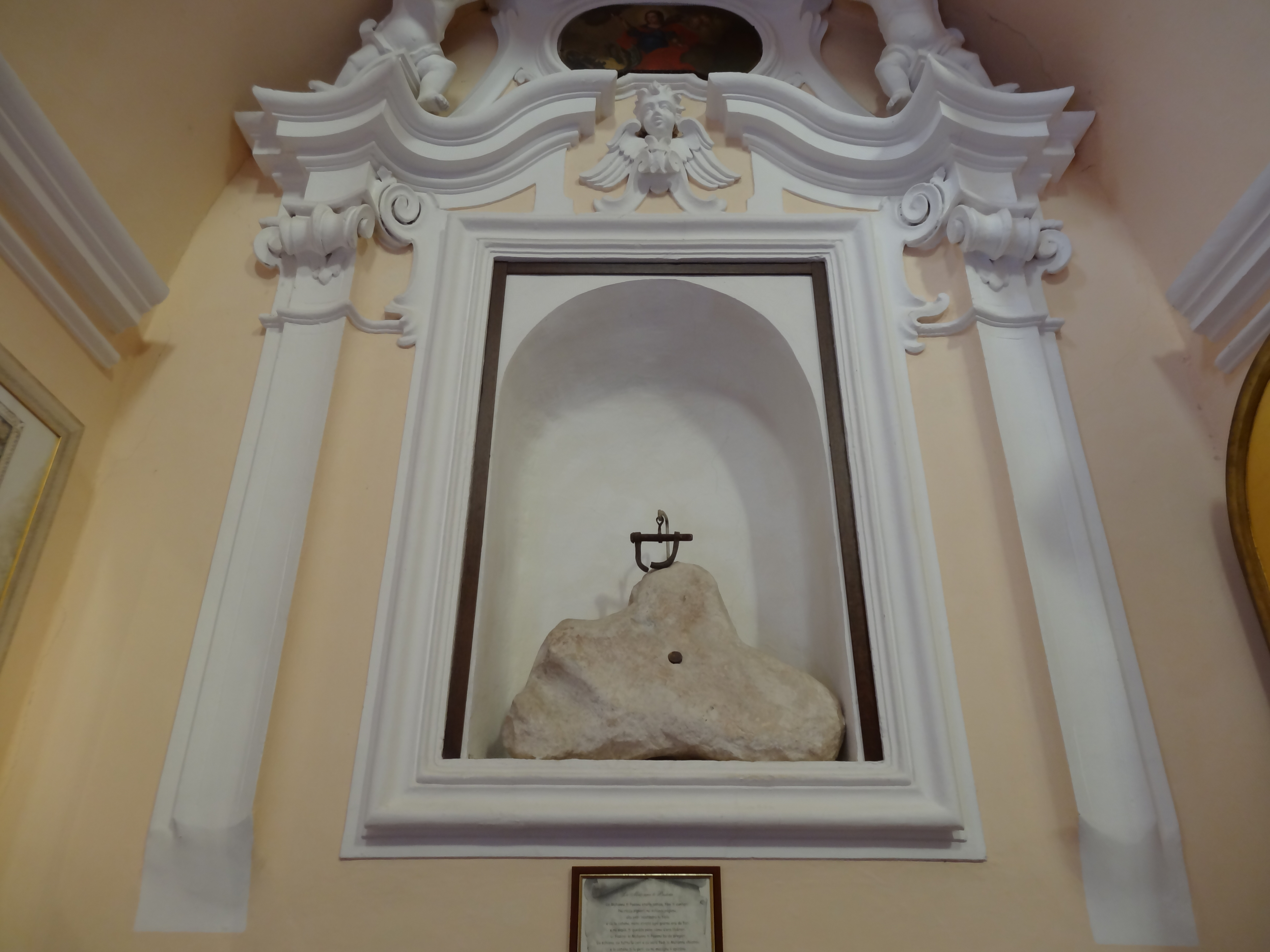 Santuario della Madonna di Pasano